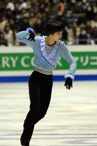 2009 Junior Grand Prix of Figure Skating Final - Yuzuru Hanyu